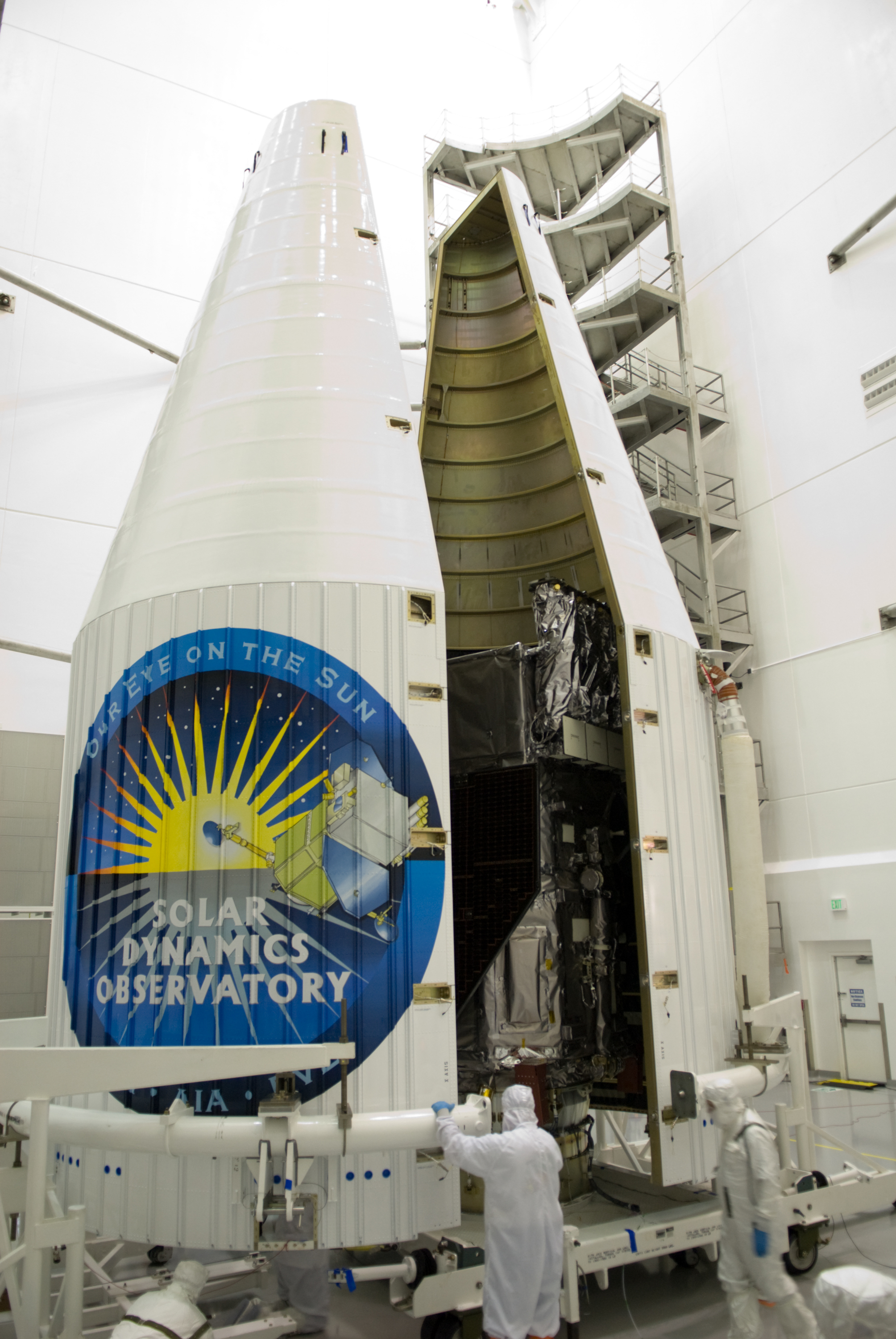 CAPE CANAVERAL, Fla. – At the Astrotech Space Operations facility in Titusville, Fla., the second half of an Atlas V payload fairing is moved into position around NASA's Solar Dynamics Observatory, or SDO. SDO is the first mission in NASA's Living With a Star Program and is designed to study the causes of solar variability and its impacts on Earth. The spacecraft's long-term measurements will give solar scientists in-depth information to help characterize the interior of the Sun, the Sun's magnetic field, the hot plasma of the solar corona, and the density of radiation that creates the ionosphere of the planets. The information will be used to create better forecasts of space weather needed to protect the aircraft, satellites and astronauts living and working in space. Liftoff aboard an Atlas V rocket is targeted for Feb. 9 from Launch Complex 41 on Cape Canaveral Air Force Station. For information on SDO, visit